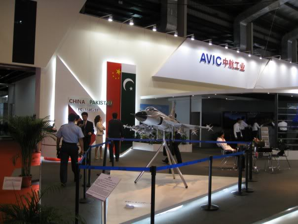 A model of the JF-17 Thunder fighter aircraft on display at an exhibition. The model includes six air-to-air missiles mounted on the JF-17's wings, two SD-10 medium range missiles and four PL-5E-II short range missiles.